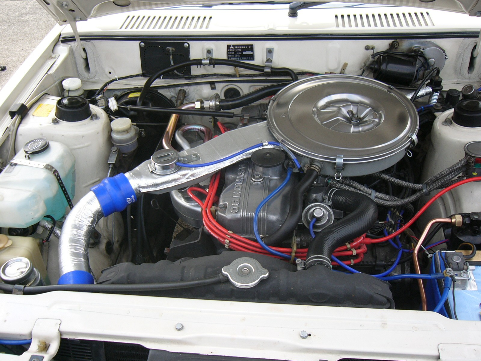 First generation Mitsubishi Galant Λ "Astron 80" G54B Carburetor engine (A135A). Taken in 2013 MMF Okazaki.